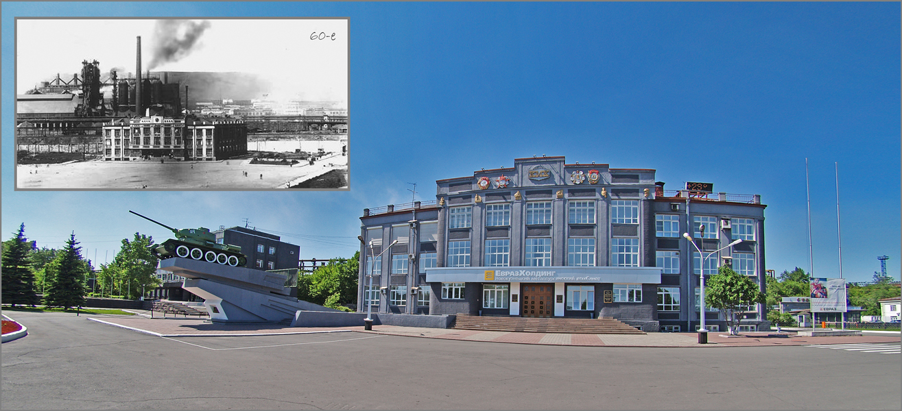 Factory management Kuznetsk Metallurgical Plant named after VI Lenin (Victory Square, the city of Novokuznetsk, Kemerovo region, Russia)